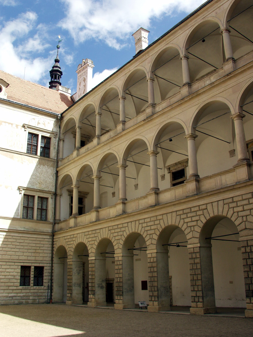 Chateu Litomyšl